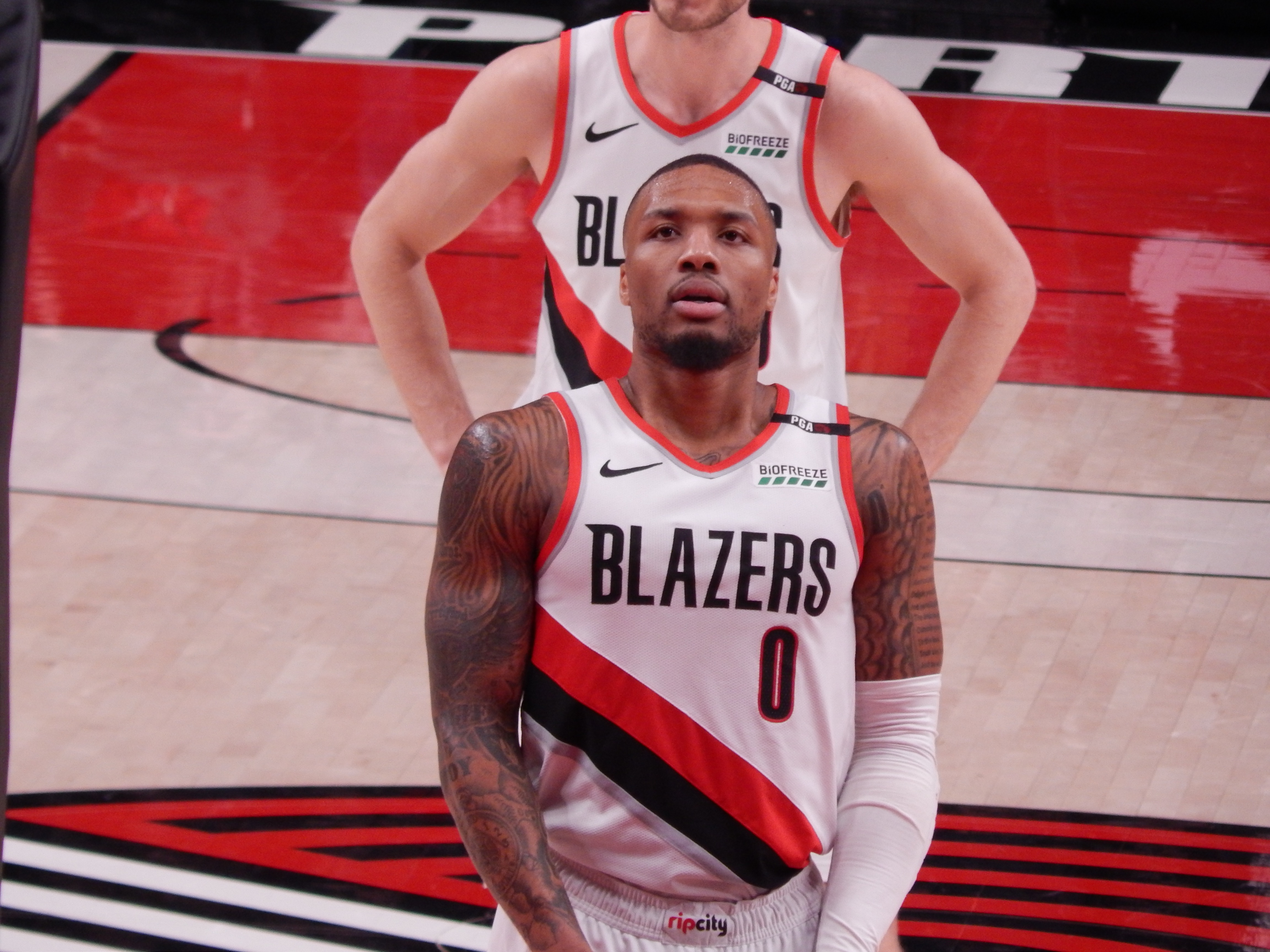 Damian Lillard #0 of the Portland Trail Blazers against the Cleveland Cavaliers on January 16, 2019 at Moda Center in Portland, Oregon.